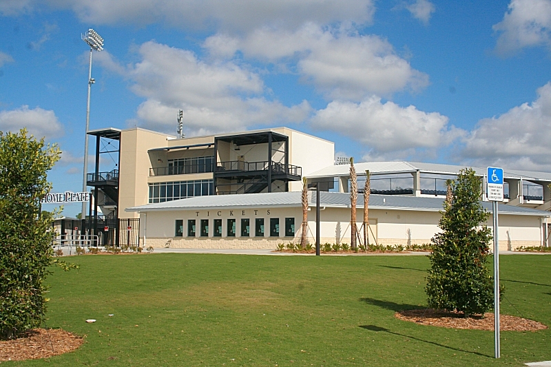 Description Charlotte Sports Park in Port Charlotte, FL. Date1-11-2009SourceI created this work entirely by myself.AuthorHappyHarvick2962 (talk) 12:37, 4 February 2009 . . HappyHarvick2962 . . 800×533 (340 KB) Charlotte Sports Park in Port Charlotte, FL.